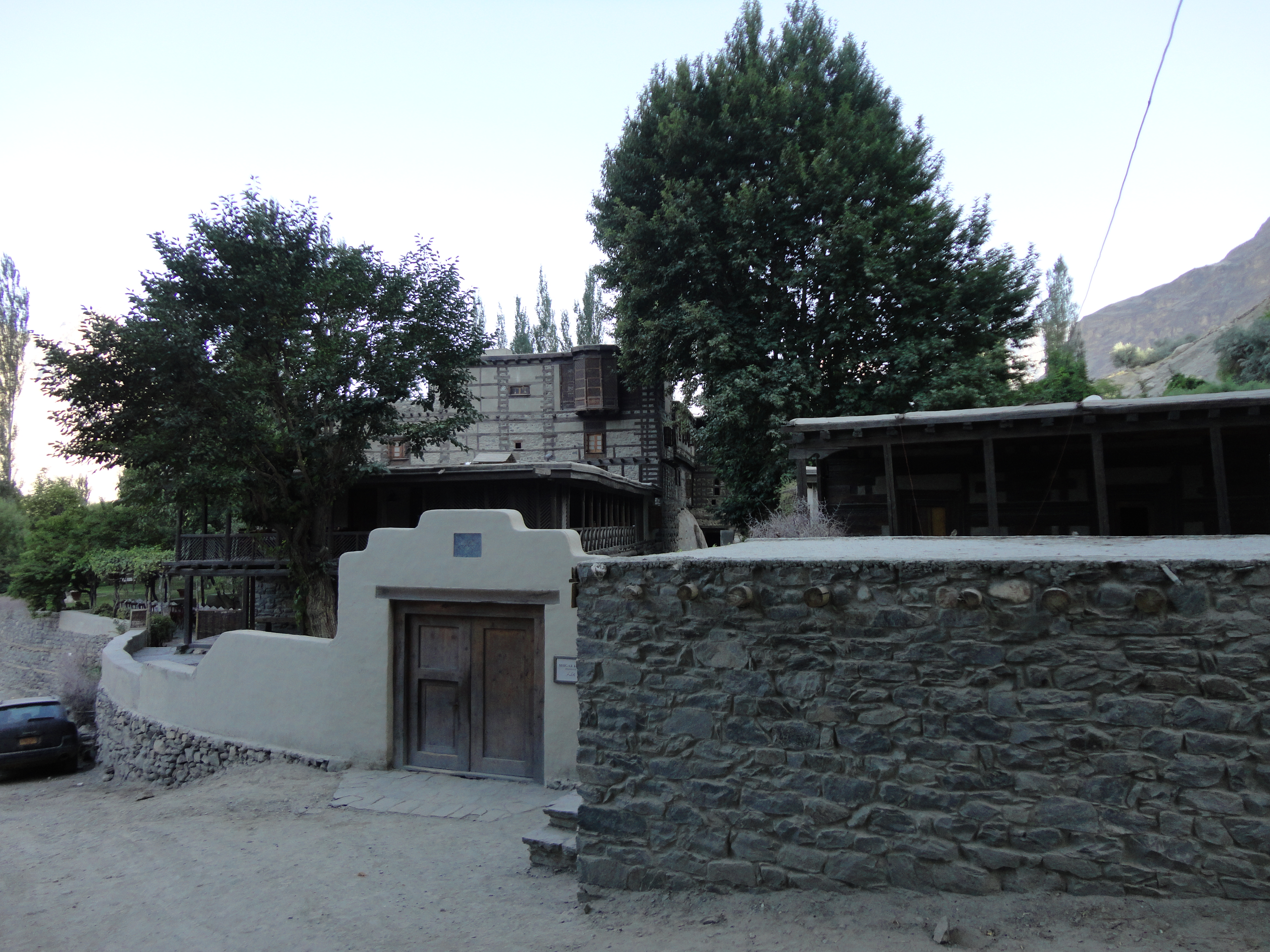 Shigar Fort This is a photo of a monument in Pakistan identified as the GB-21